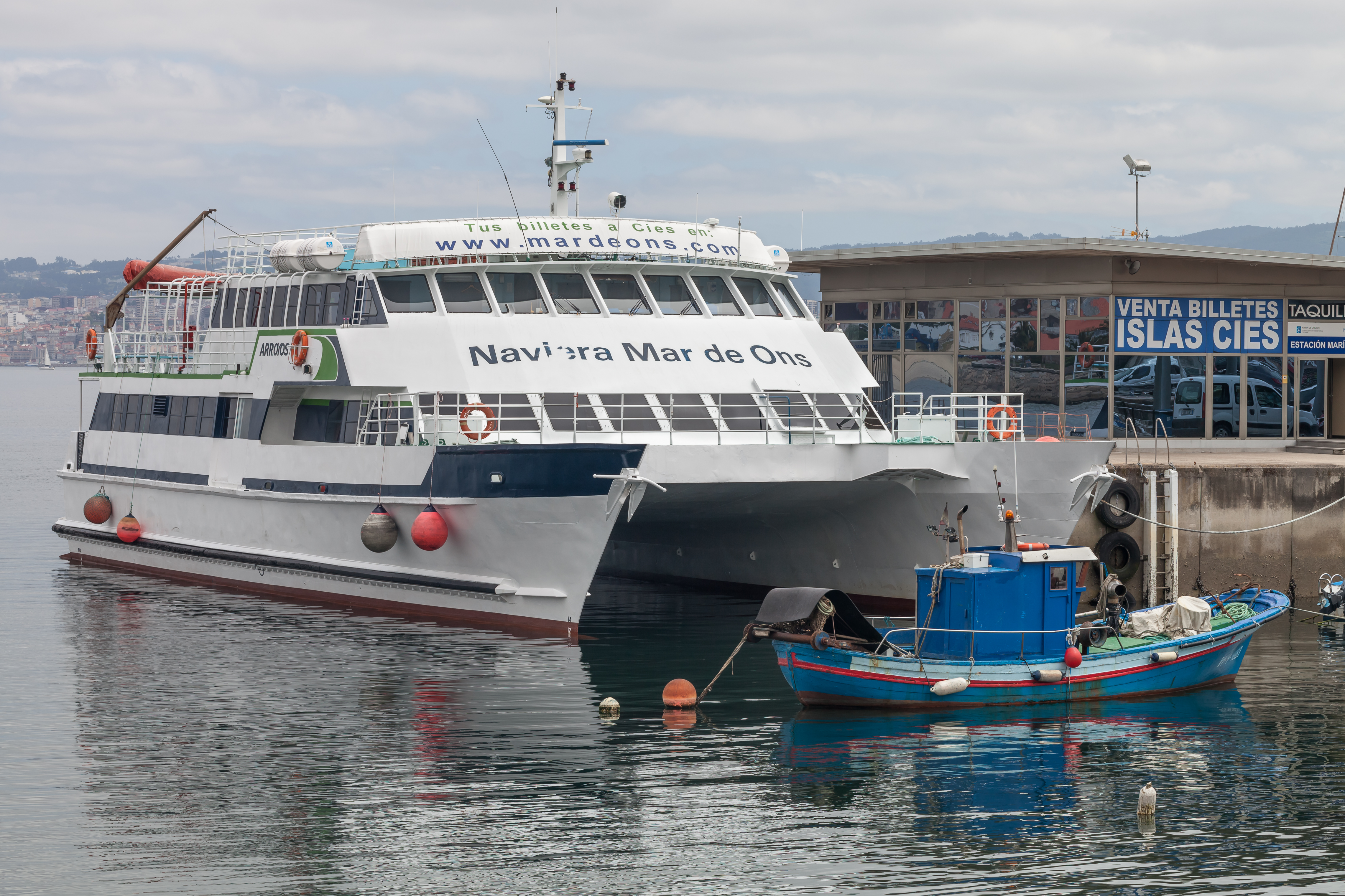 "Mar de Ons" and VI-4-4887. Cangas, Galicia (Spain).